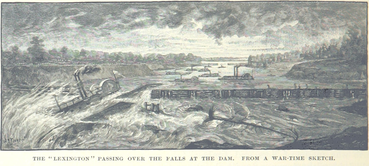 USS Lexington passes the falls of the Red River on 9 May 1864.